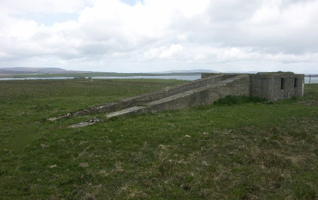 South Walls Radar platform at WWII Heavy Anti Aircraft Gun site on South Walls, Orkney Islands